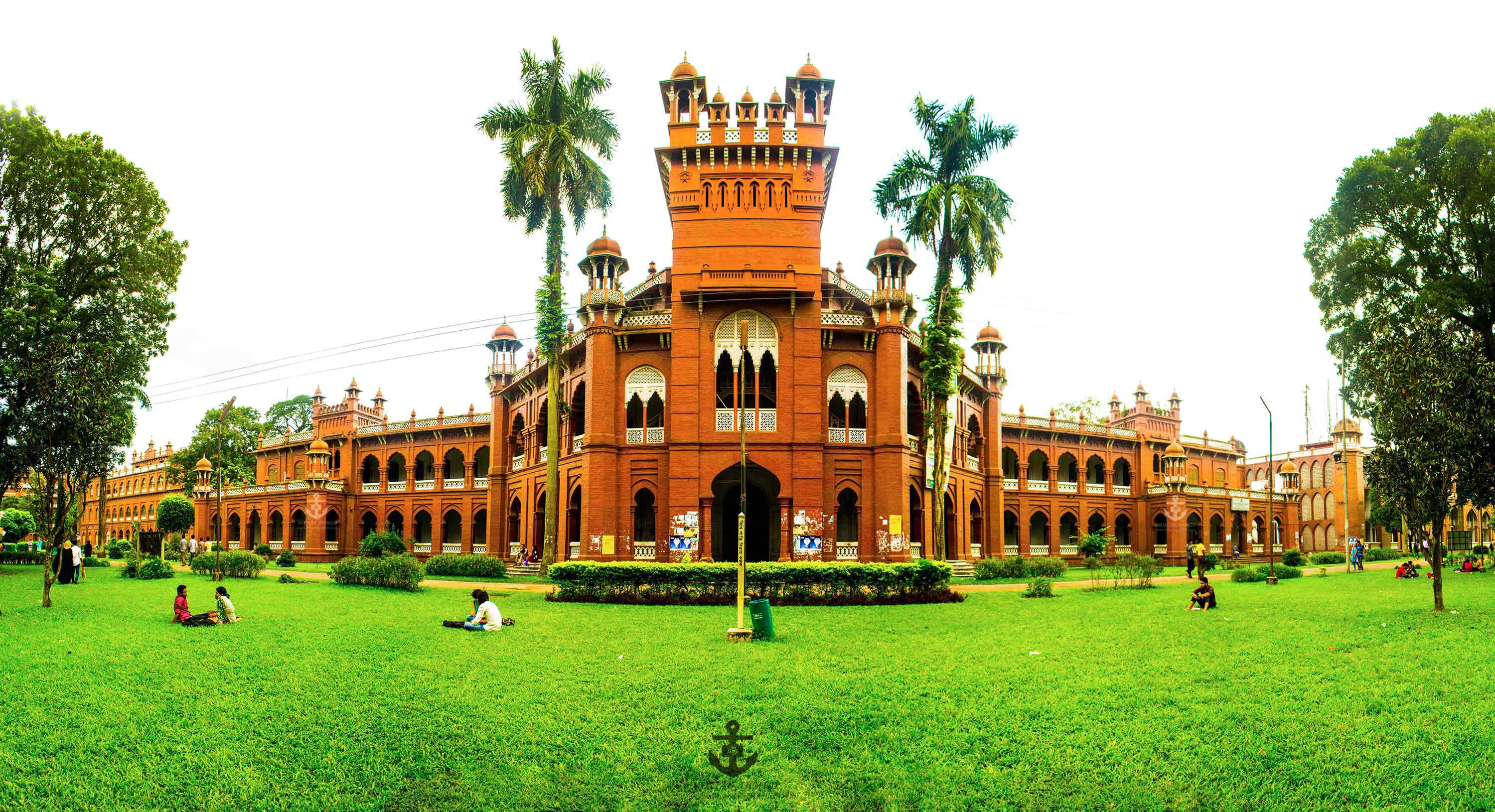 Curzon Hall Panoramic view is taken by Mostak Ahmed